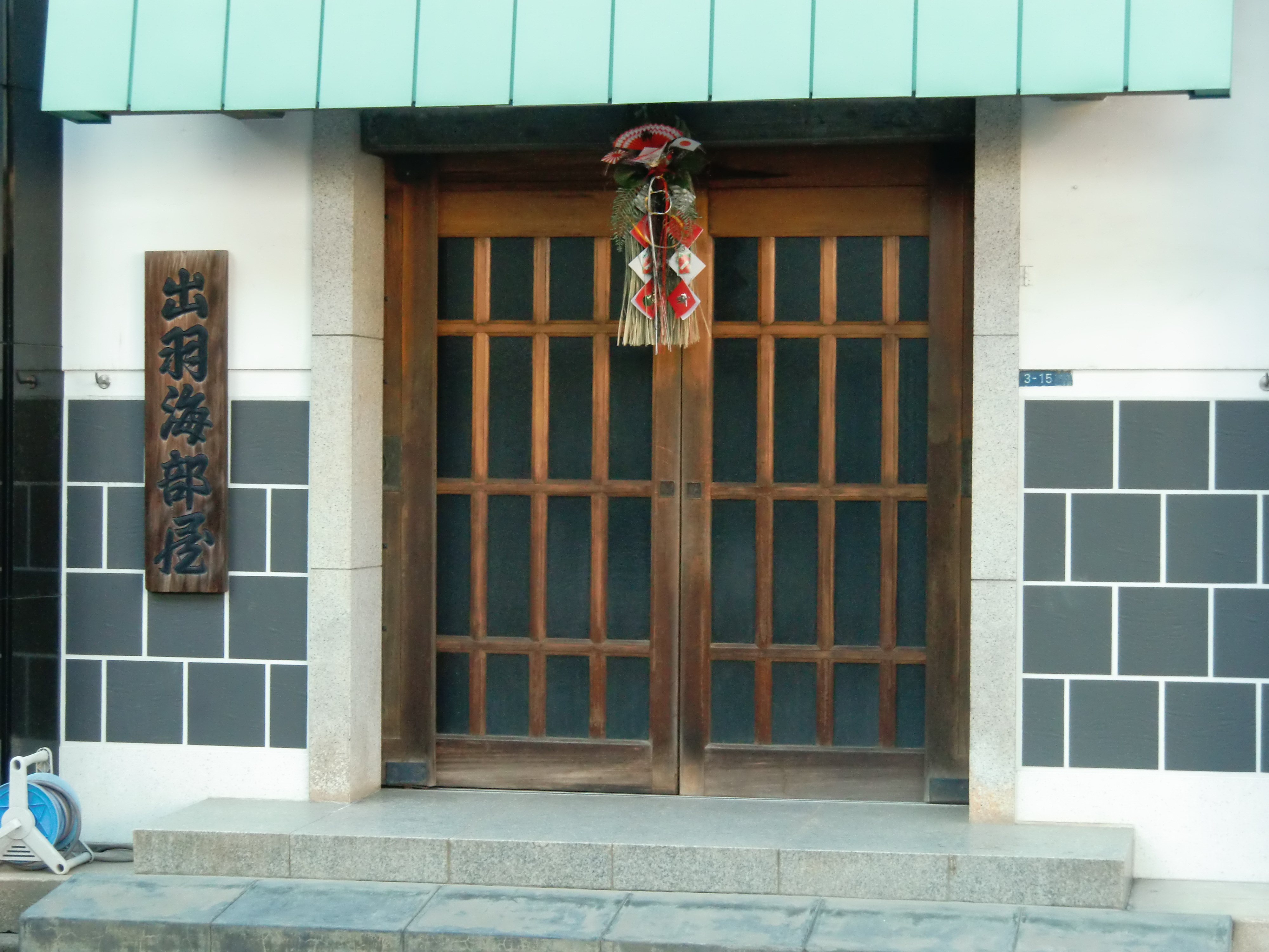 Taken outside the stable